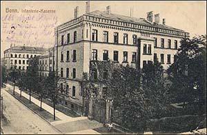 Historic postal card of the Ermekeilkaserne in Bonn, about 1900.